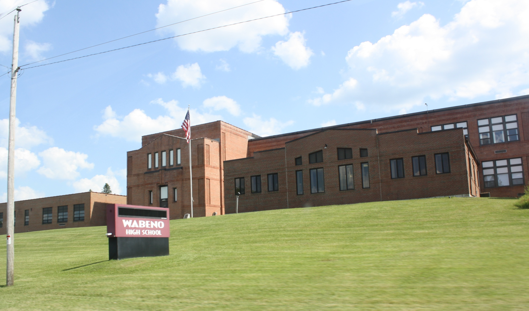 The school in Wabeno, Wisconsin.